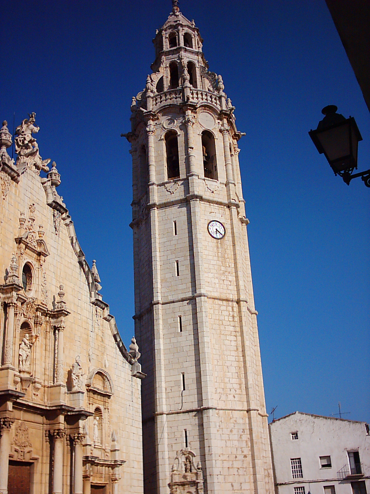 Beltry of the church of St. John the Baptist, Alcalà de Xivert (Spain)